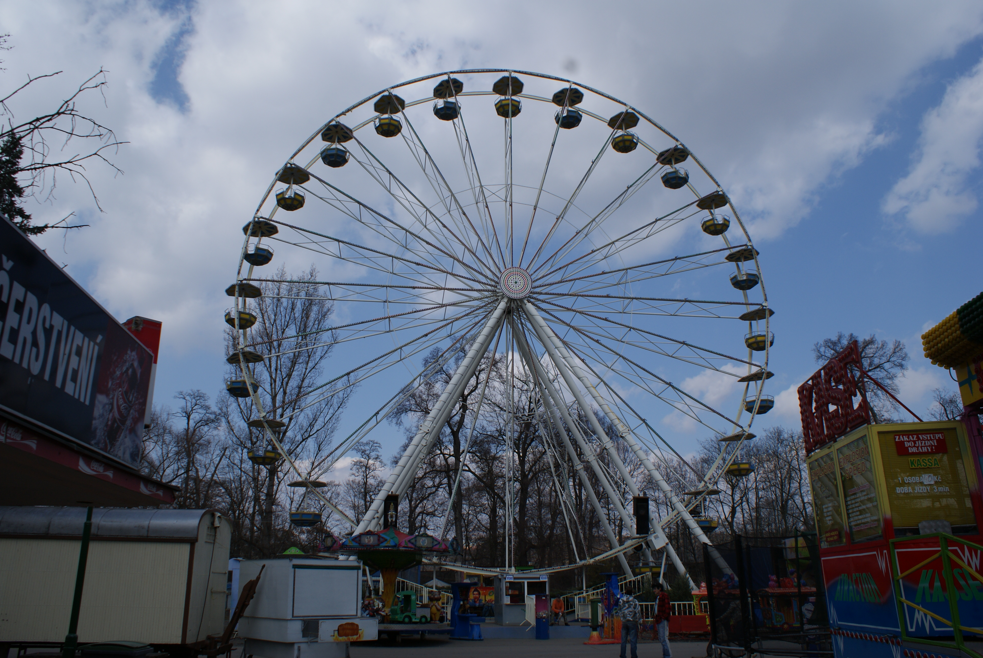 The Big wheel in the Lunapark, Prague, Czech Republic Česky: Ruské kolo v Lunaparku Praha na Pražském výstavišti